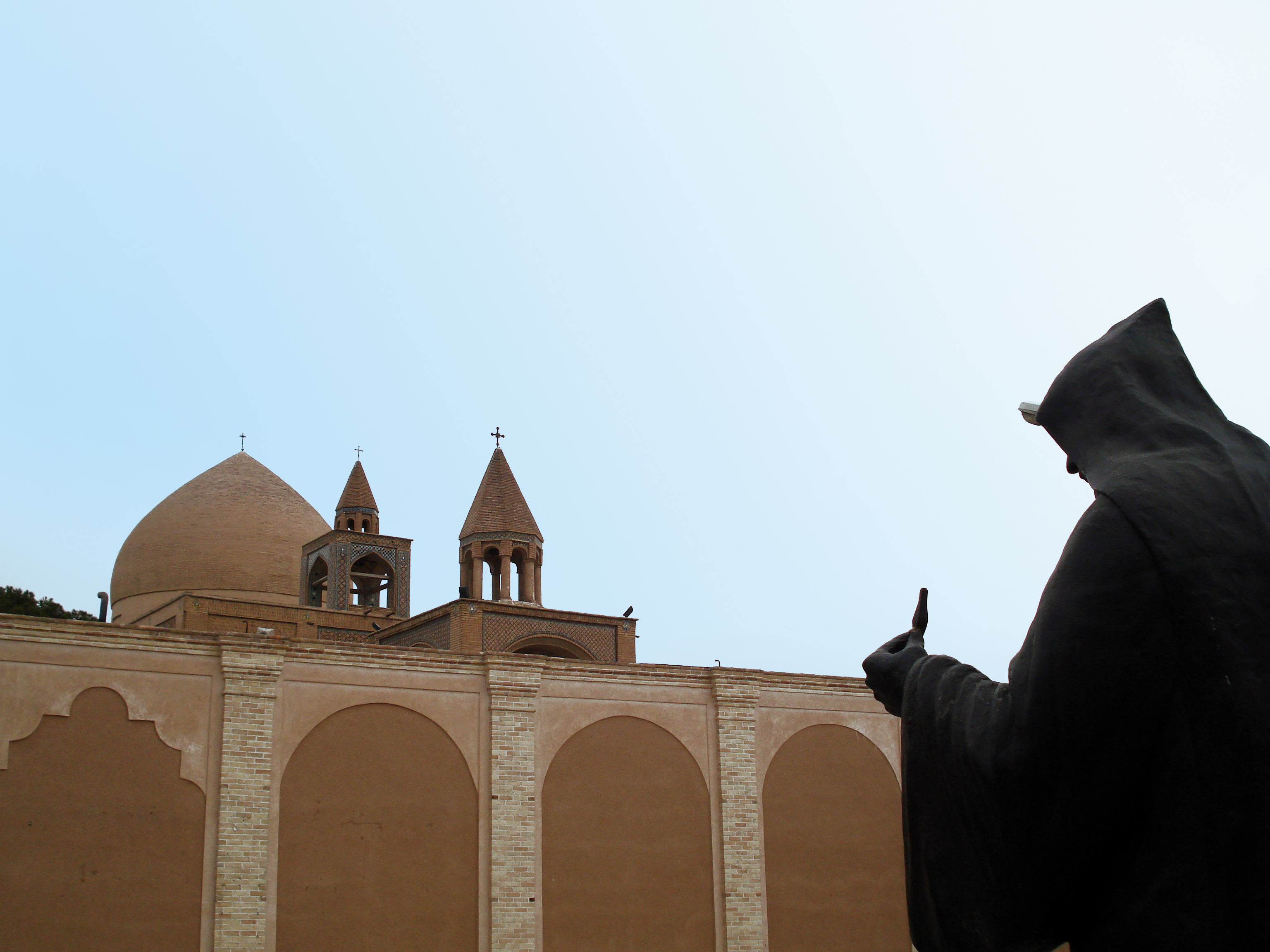 Vank Cathedral in Isfahan, Iran.